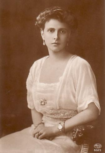 Postcard of Princess Alice of Battenberg shortly after her marriage to Prince Andrew of Greece